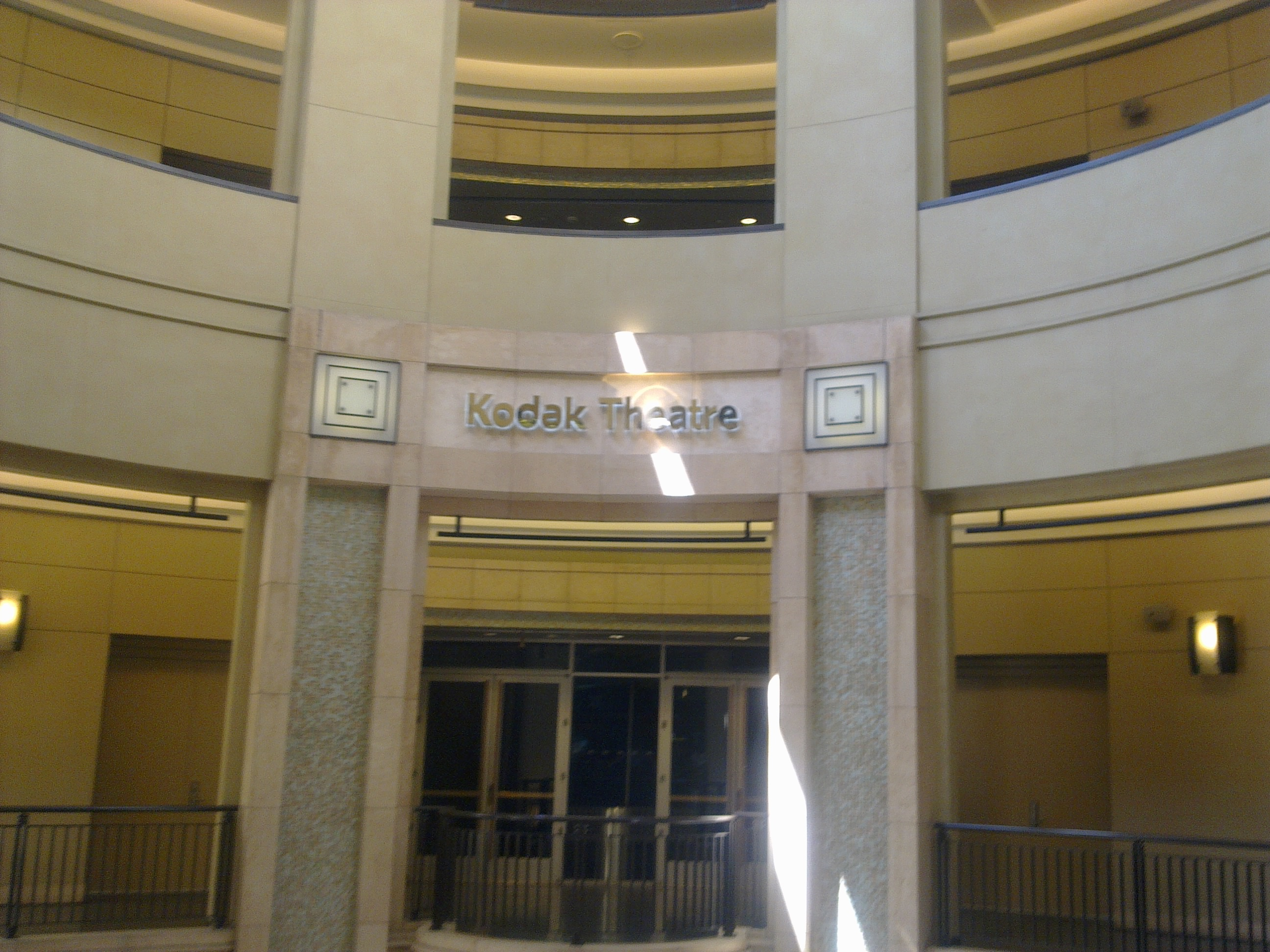 theatre in Hollywood known for the annual Oscar celebrations